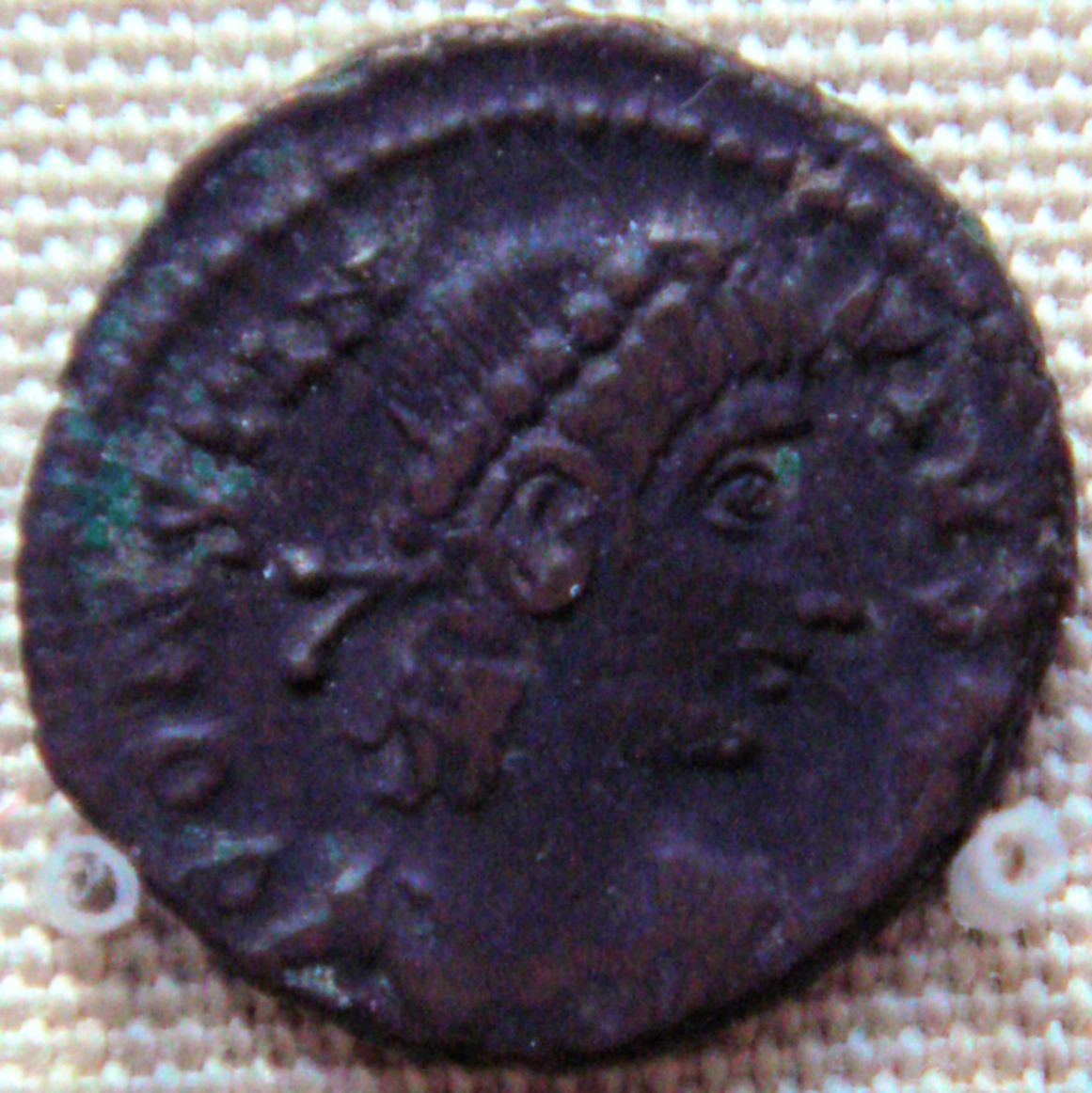 A bronze coin of the Eastern Roman emperor Constantius II (r. 337-361), found in Karghalik, Xinjiang Autonomous Region, China.